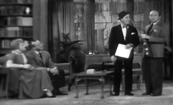 Screen capture from A Shower of Stars. Jack Benny was the headliner for this January 9, 1958 television special. The plot ran that he had written a song and with the help of Ed Wynn, was trying to get singers to record it. Benny tried guest star Tommy Sands with no luck, then began his pitch to Jo Stafford and Paul Weston, who also were guests. The Westons didn't want to record the song, but didn't want to hurt Benny's feelings by refusing to, so they decided to "pass" the song to Jonathan and Darlene Edwards, who then demonstrated their "skills" by performing "All the Way" as a proposed "B" side of the single.